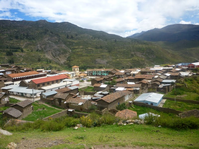 Distrito de Pacllón.